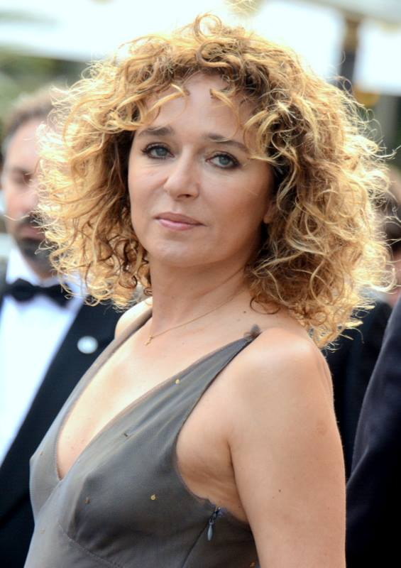 Valeria Golino at the Cannes film festival